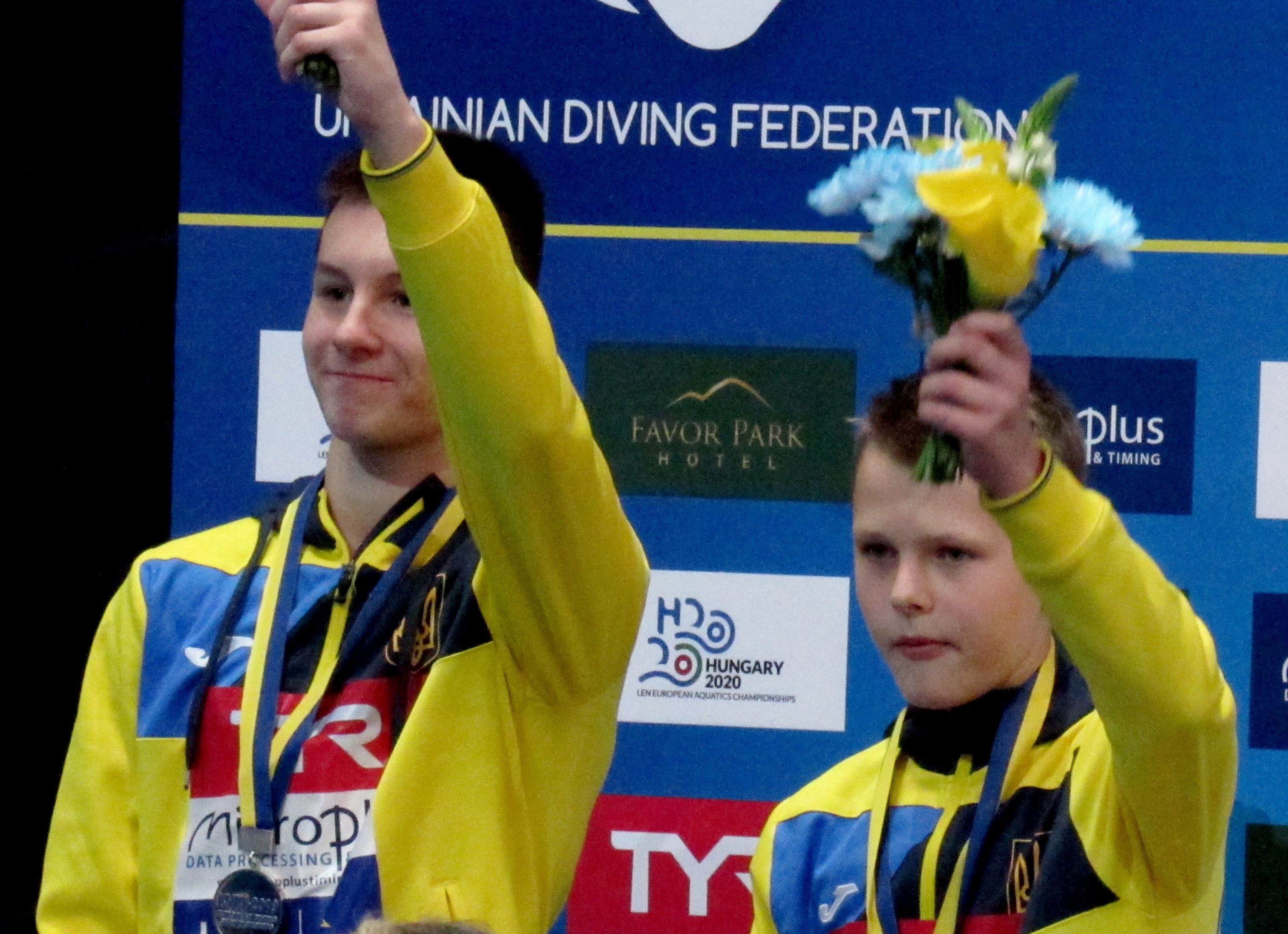 Ukrainian divers Oleh Serbin and Oleksii Sereda, the silver medalists of the European Championships in syncronized dives from 10-meter platform. Kyiv, 8 August, 2019.